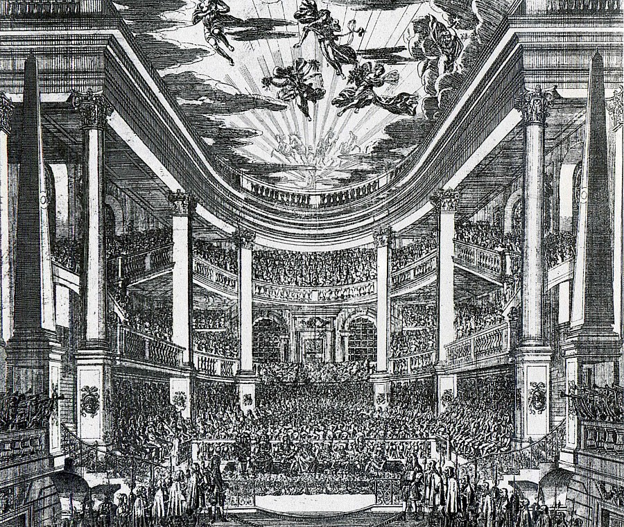 Auditorium of the Opernhaus am Taschenberg (Opera House) in Dresden, Germany, 1678